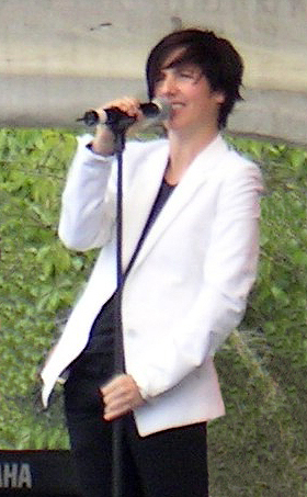 Texas